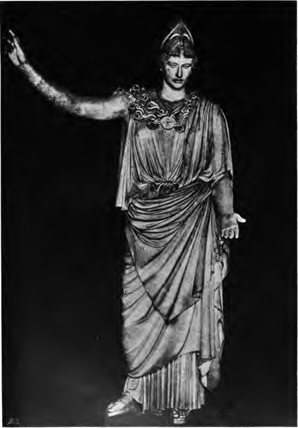 Author: Furtwängler, Adolf, 1853-1907. [from old catalog]; Urlichs, Heinrich Ludwig, 1864- [from old catalog] joint author Subject: Sculpture, Greek. [from old catalog]; Sculpture, Roman. [from old catalog] Publisher: München, F. Bruckmann a. g Year: 1904 Possible copyright status: NOT_IN_COPYRIGHT Language: German Digitizing sponsor: Google Book contributor: Harvard University Collection: americana